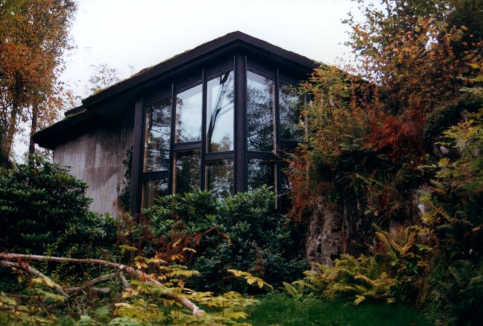 The chamber music hall "Troldsalen" at the Edvard Grieg Museum Troldhaugen in Bergen, Norway